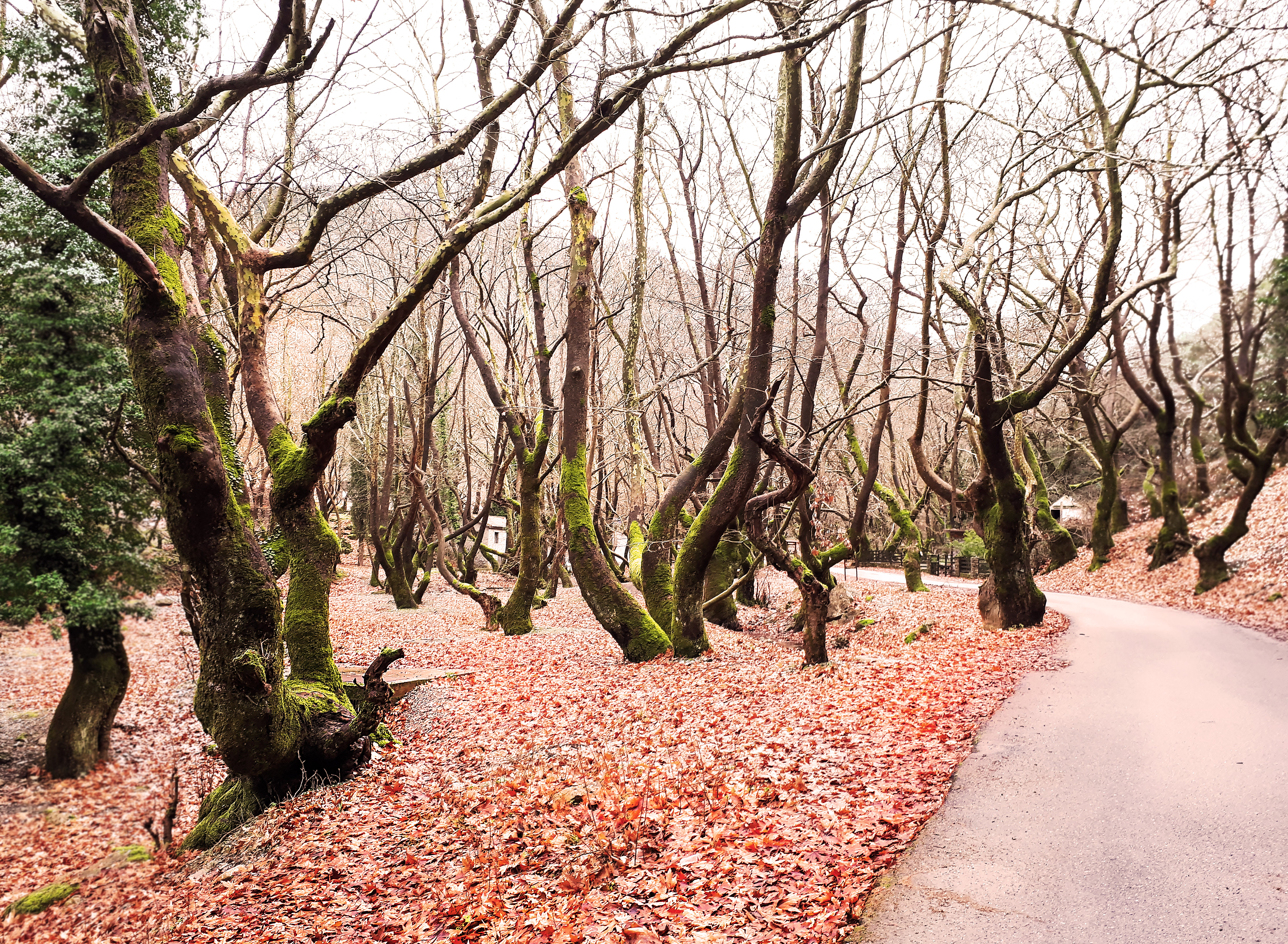 This is a photography of Natura 2000 protected area with ID GR2320002